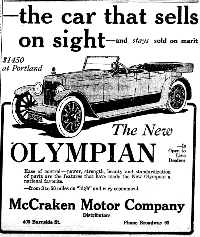 1919 Oregon newspaper ad for Olympian cars.